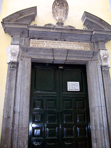 Photograph of the entrance to the Cappella Sansevero in Naples, Italy, taken by me on 22 December 2008.